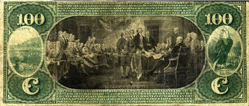 Reverse of old 100 USD national bank note